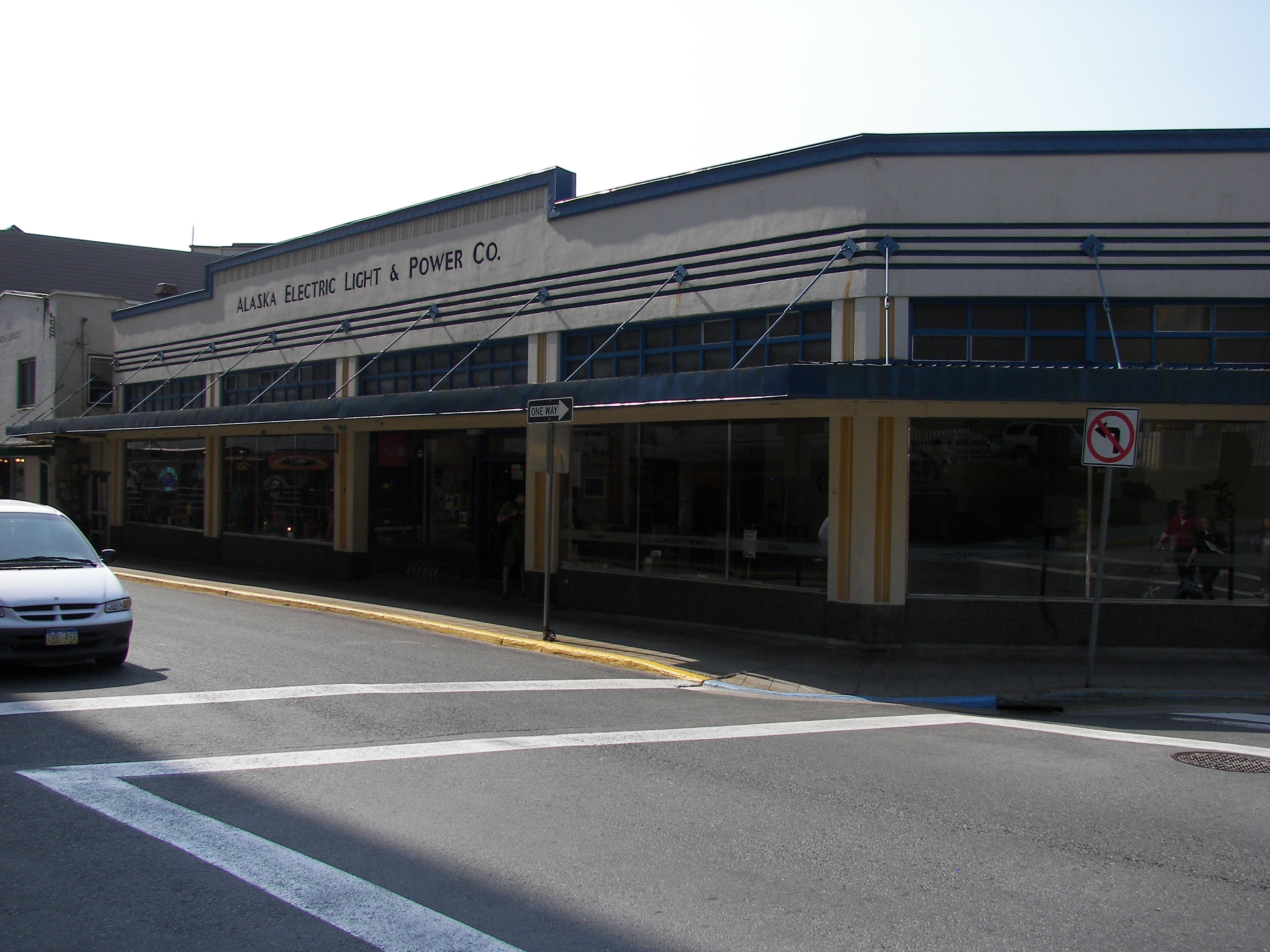 Alaska Electric Light & Power building on Franklin Street in downtown Juneau, Alaska.